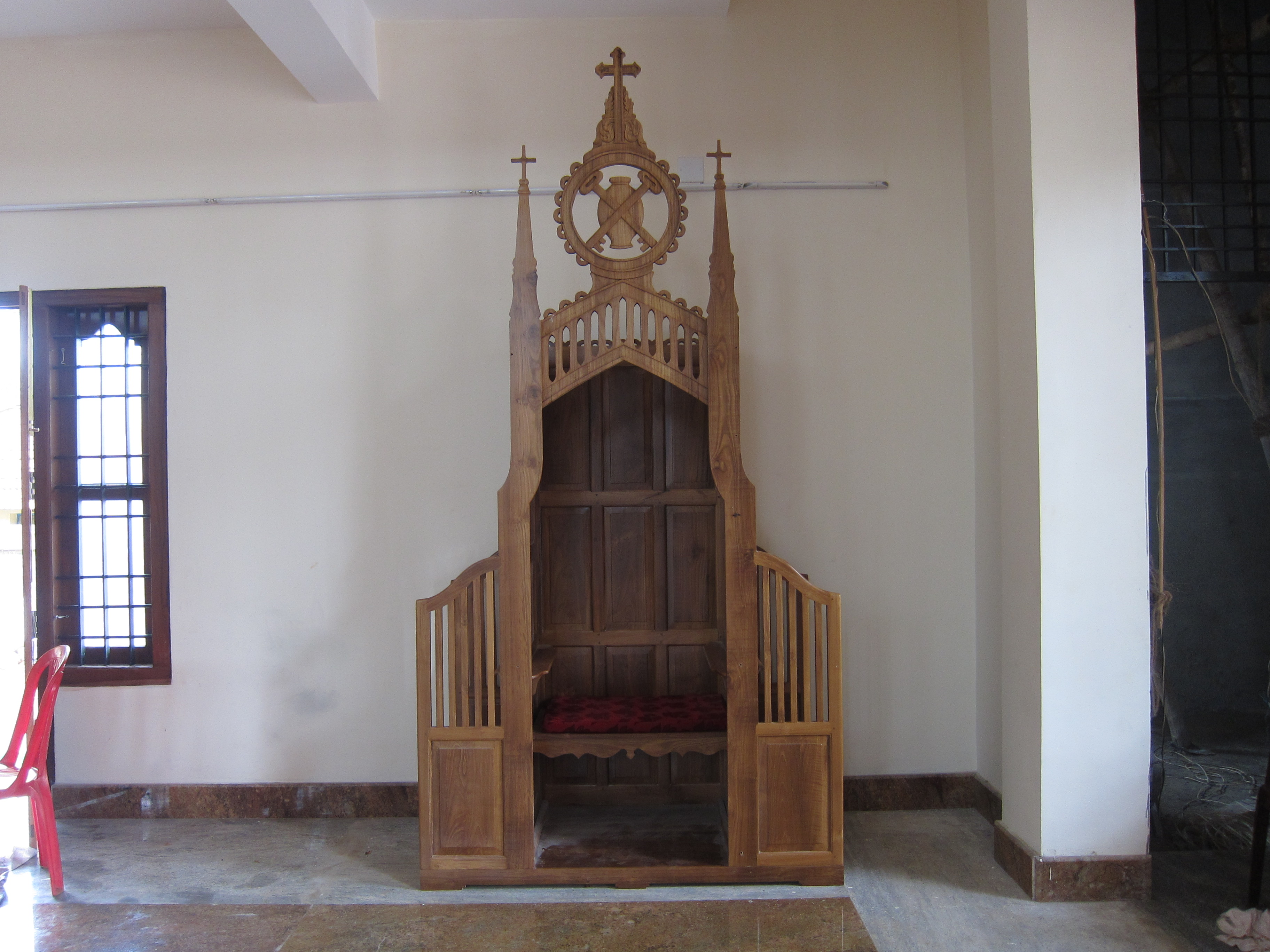 Confession Box - കുമ്പസാരക്കൂട്, ഇരിങ്ങാലക്കുട രൂപതയിലെ തുരുത്തിപ്പറമ്പ് പള്ളിയിലെ കുമ്പസാരക്കൂട്